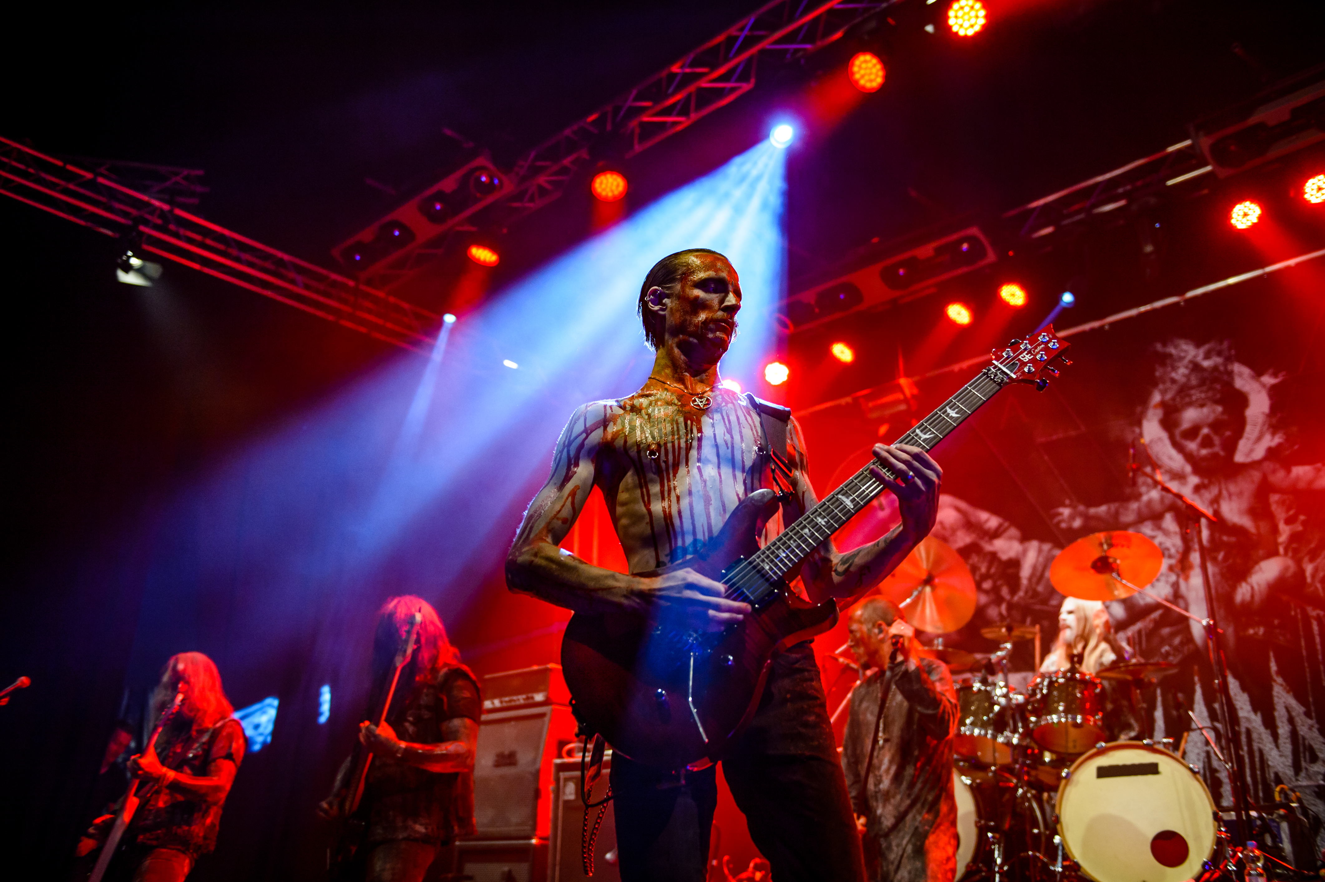 Bloodbath; Dong Open Air 2016